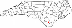 Category:North Carolina Dot Maps